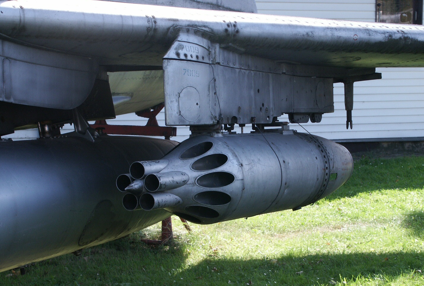 UB-16-57U launcher for 55 mm S-5 rockets under a wing of Su-7BKL fighter-bomber in Muzeum Orla Bialego (White Eagle Museum) in Skarzysko-Kamienna, Poland.